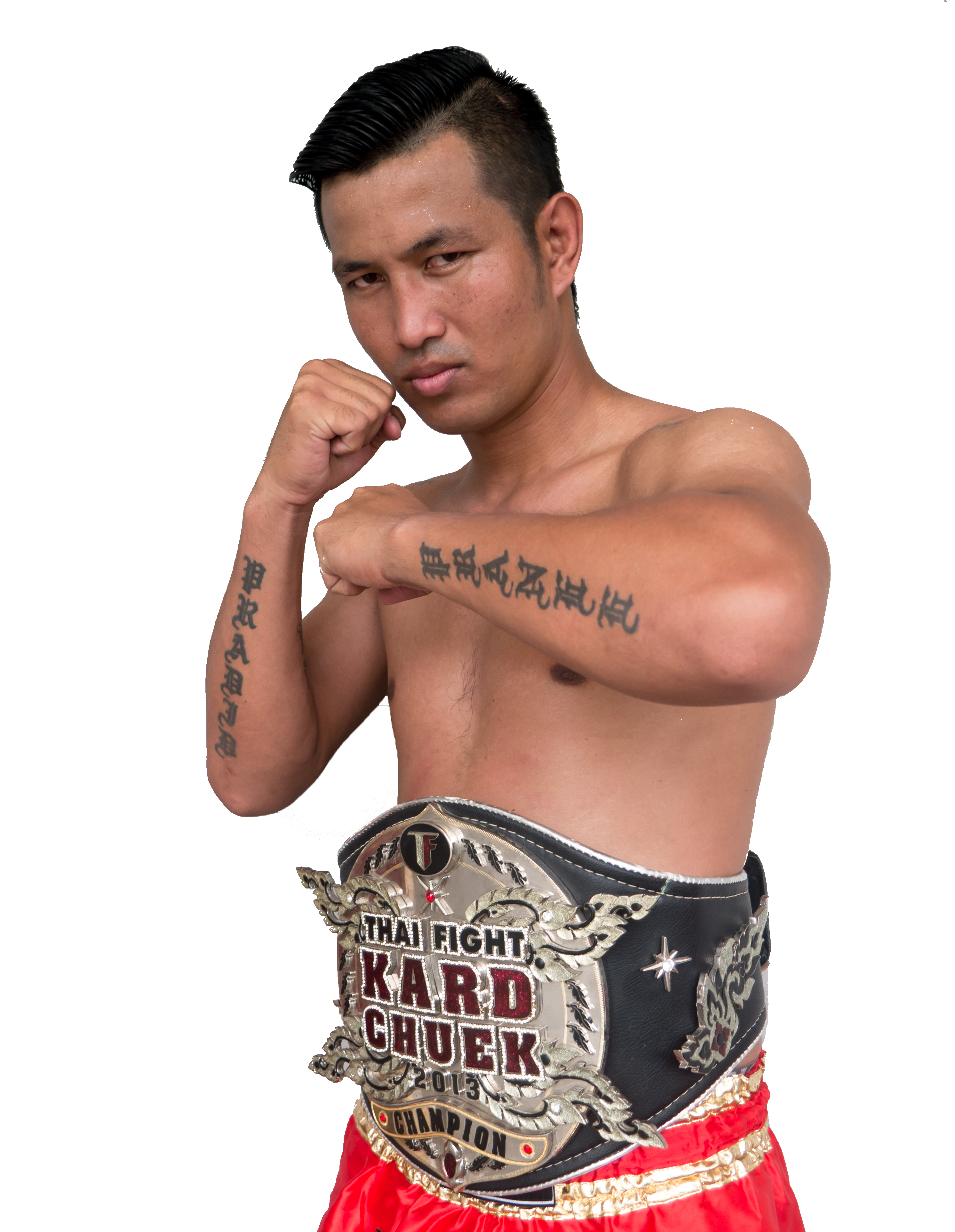 Sudsakorn Sor Klinmee, 31